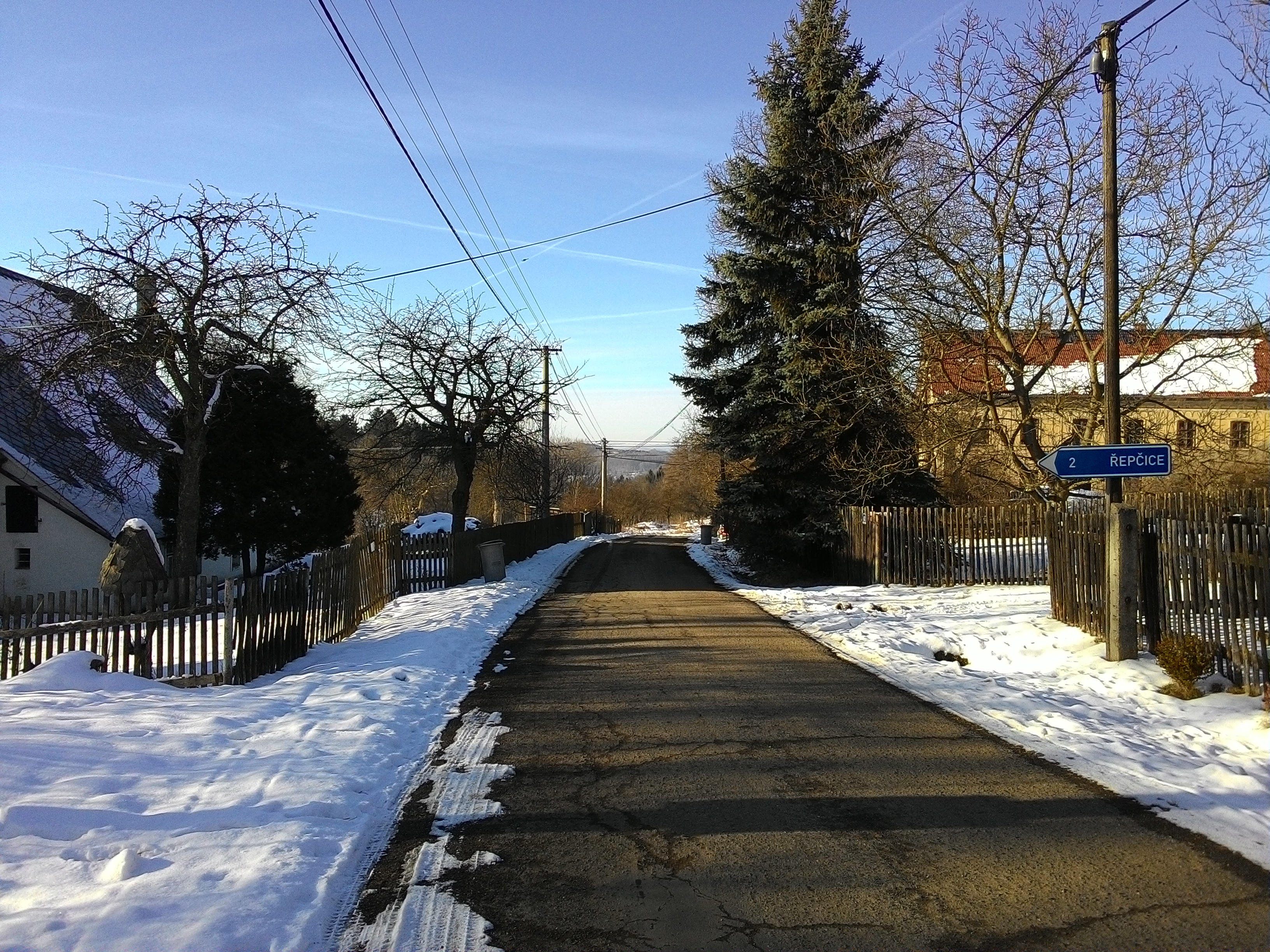 Main road in the village of Haslice, Ústí Region, CZ